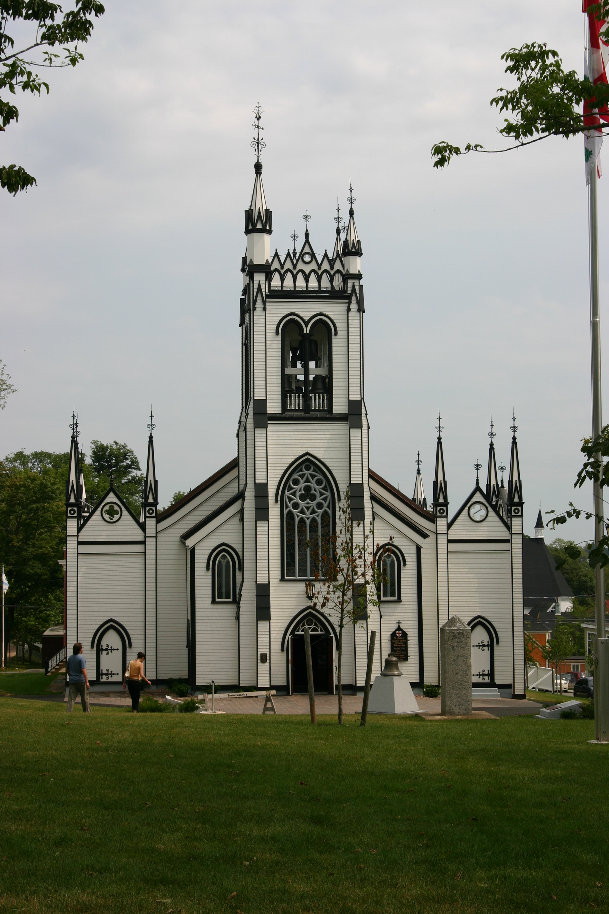 St. John in Lunenburg, Nova Scotia, Canada